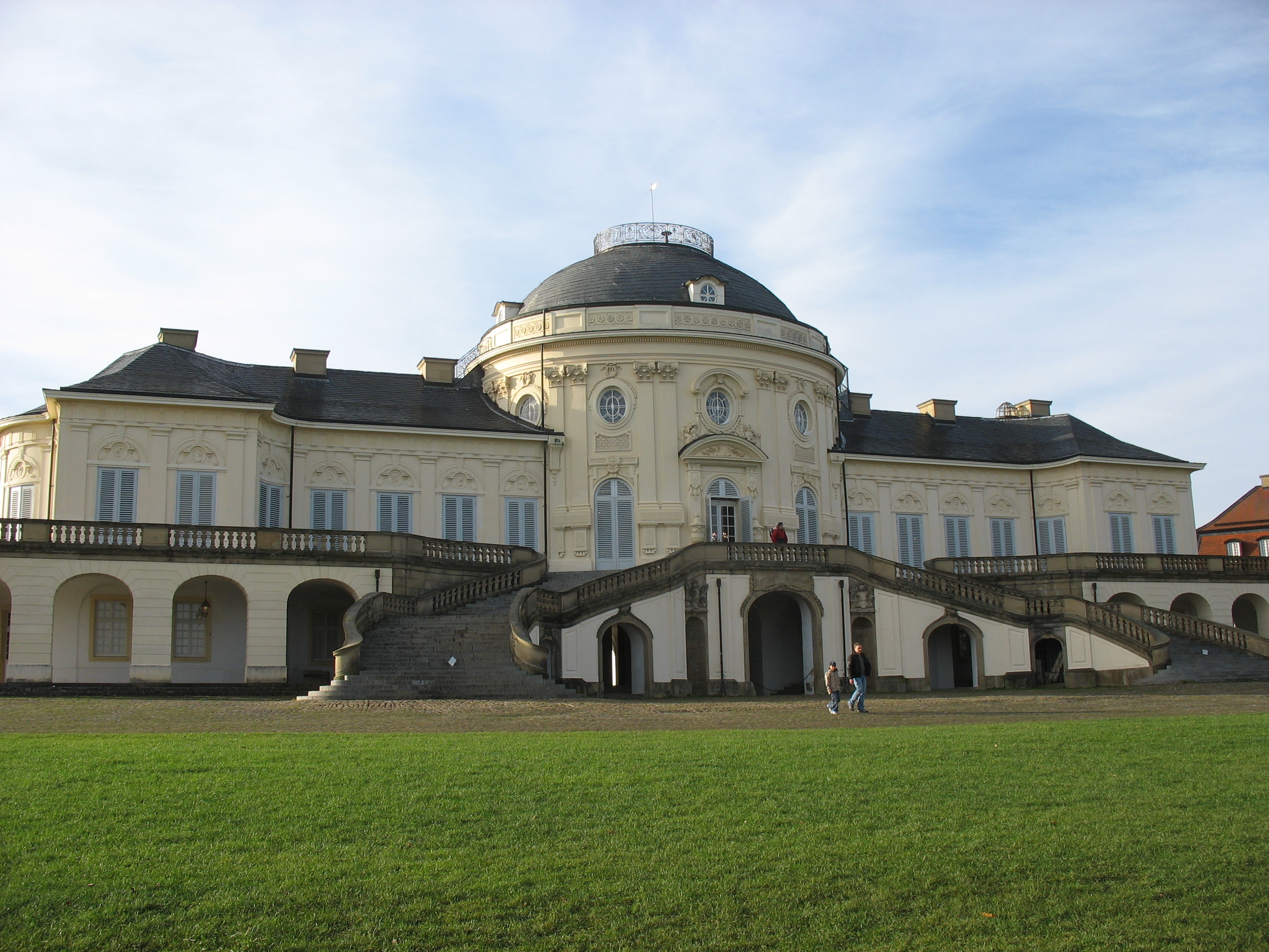 Castle Solitude, near Stuttgart, Germany